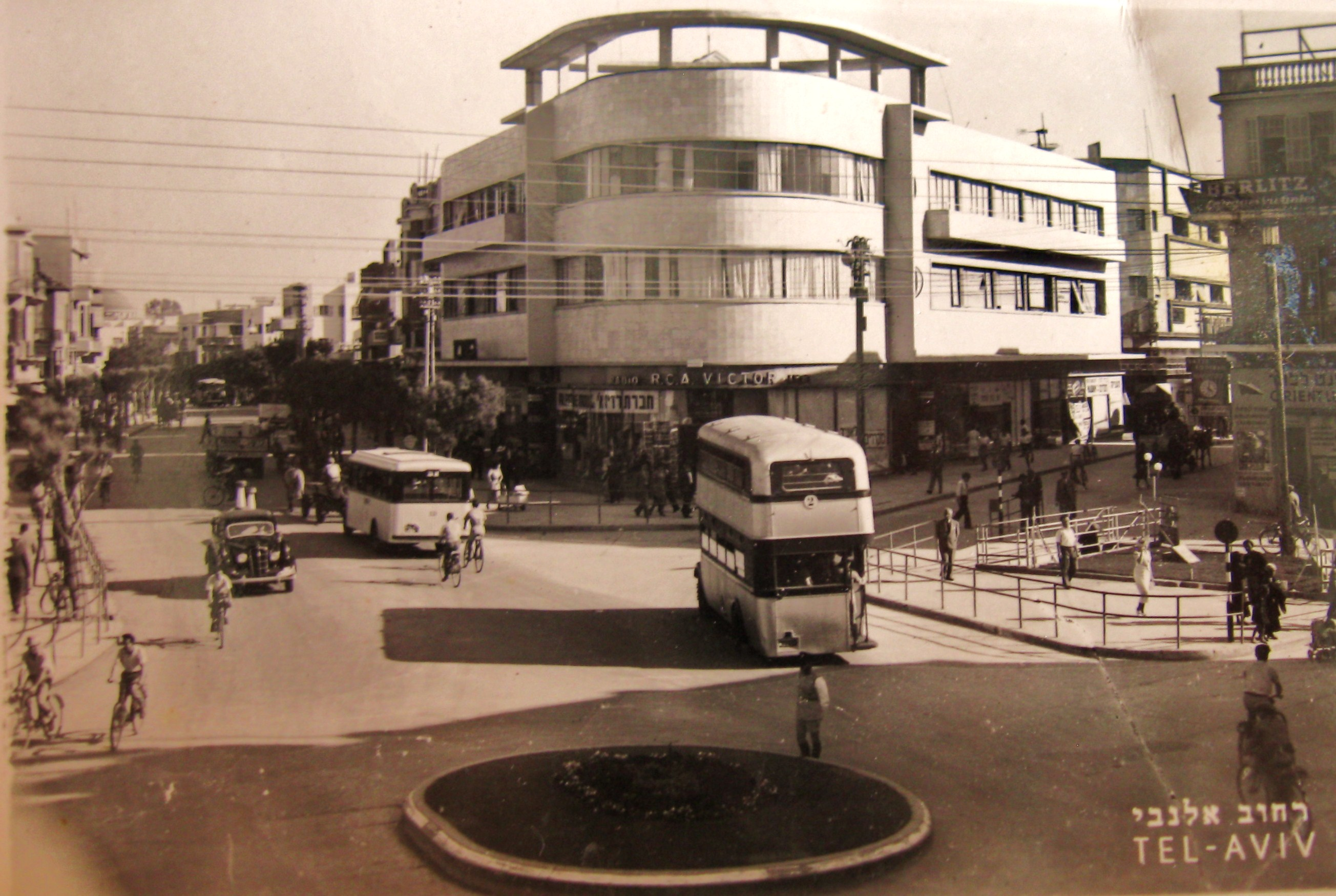 Allenby Street in Tel Aviv in the early days postcard from the mandate. Itamar Atzmon's Collection.